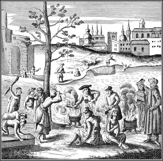 Jews of Salonika do penance for following the pseudo-messiah Shabbatai Tzvi.